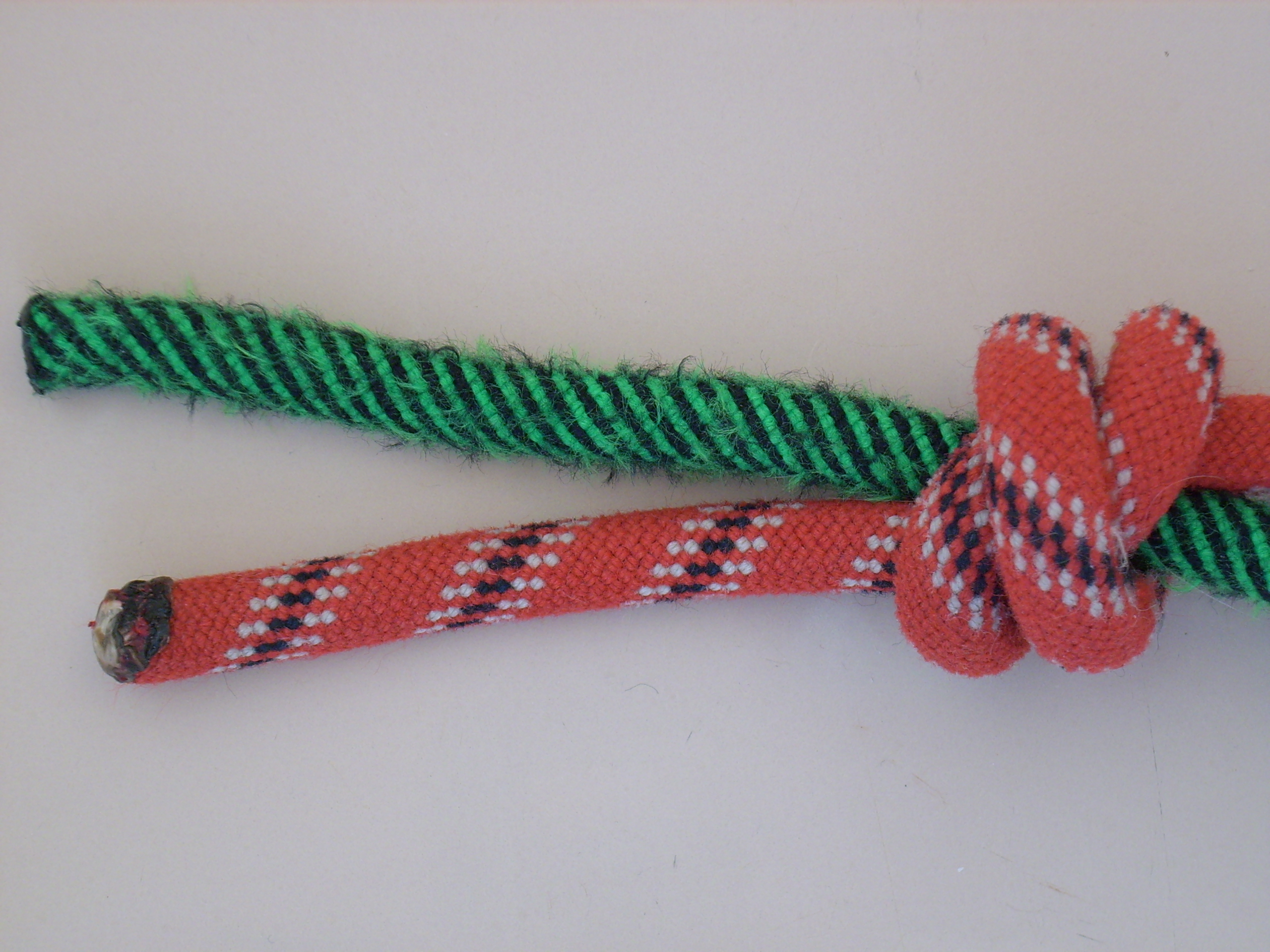 Double Fisherman's Knot in drop form, first double overhand knot